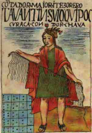 quipucamayoc and quipu